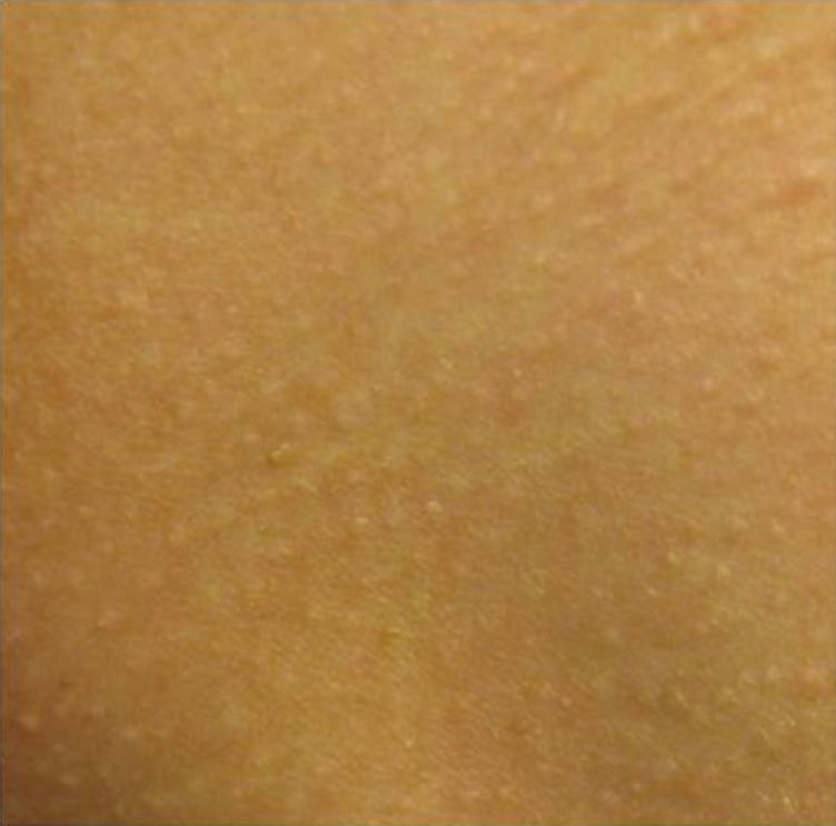 PXE-like papillary dermal elastolysis: Small flesh-colored papules in the neck region.